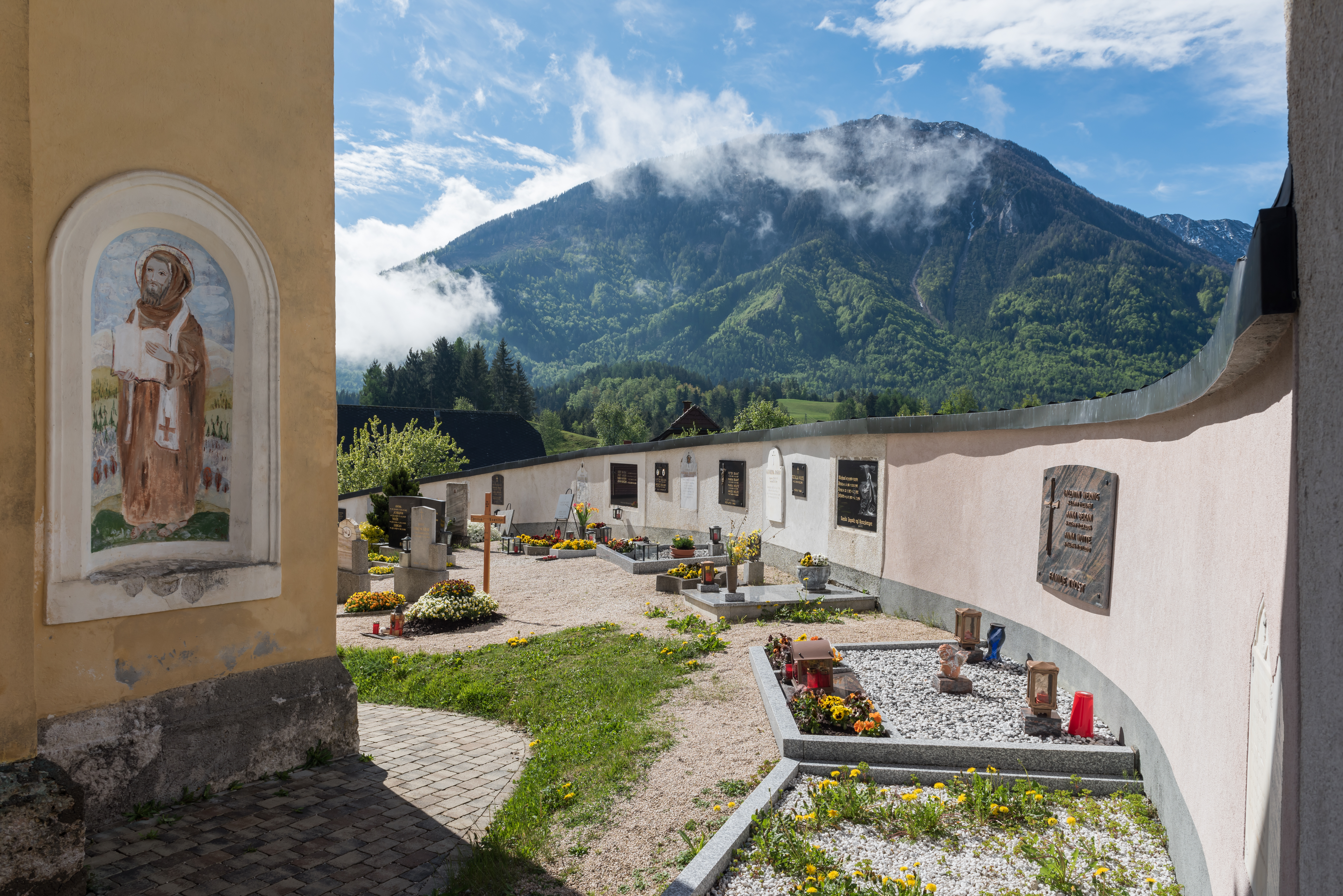 Cemetery around the parish church Saint Leonard at Abtei, municipality Gallizien, district Voelkermarkt, Carinthia, Austria, EU